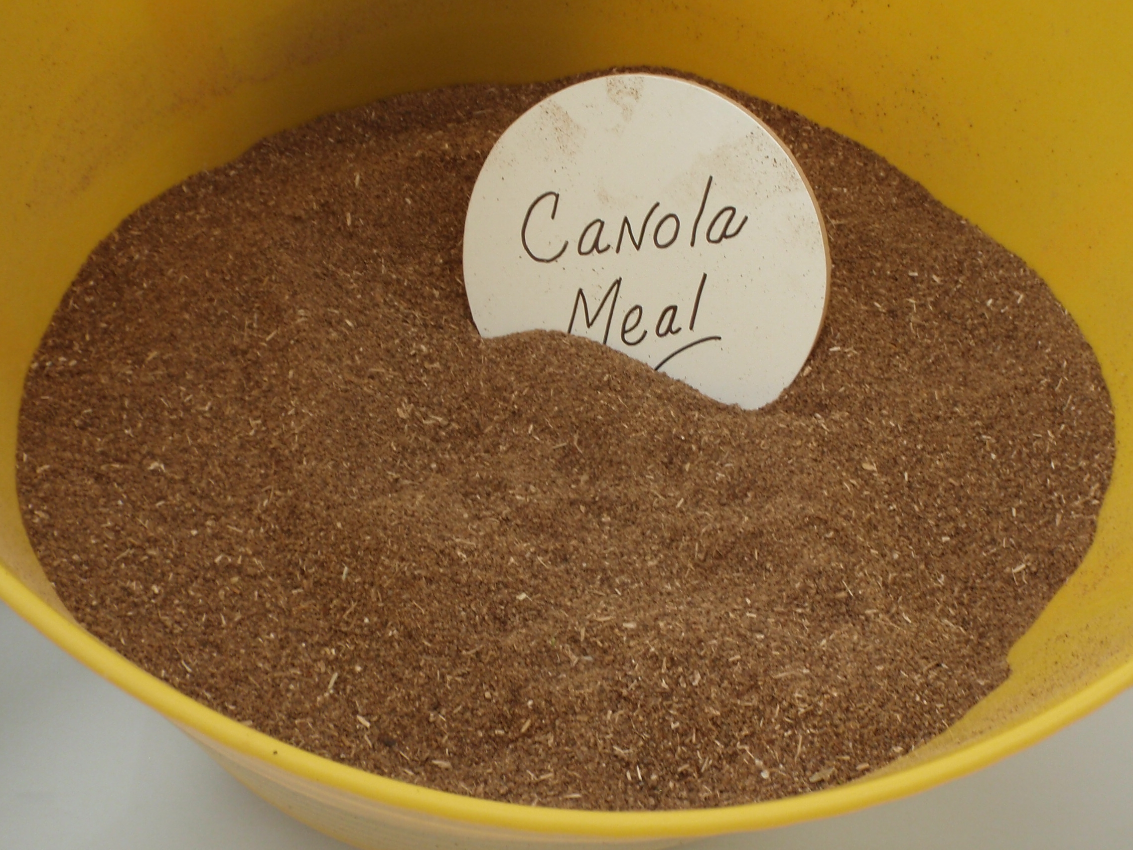 Canola meal on display in an agricultural display at Stampede Park, Calgary, Alberta, Canada.